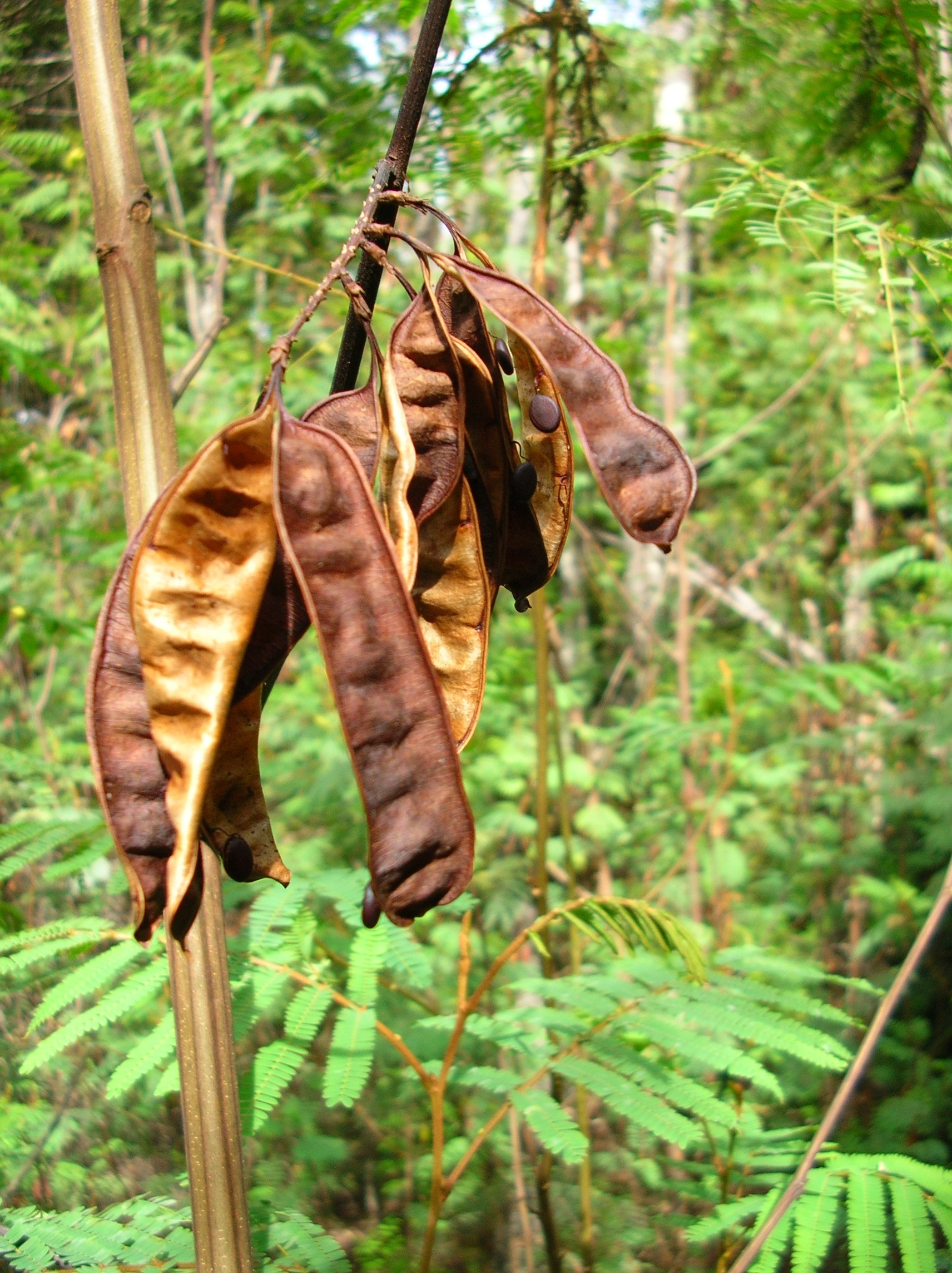 Paraserianthes lophantha subsp. montana (seed pods). Location: Maui, Polipoli